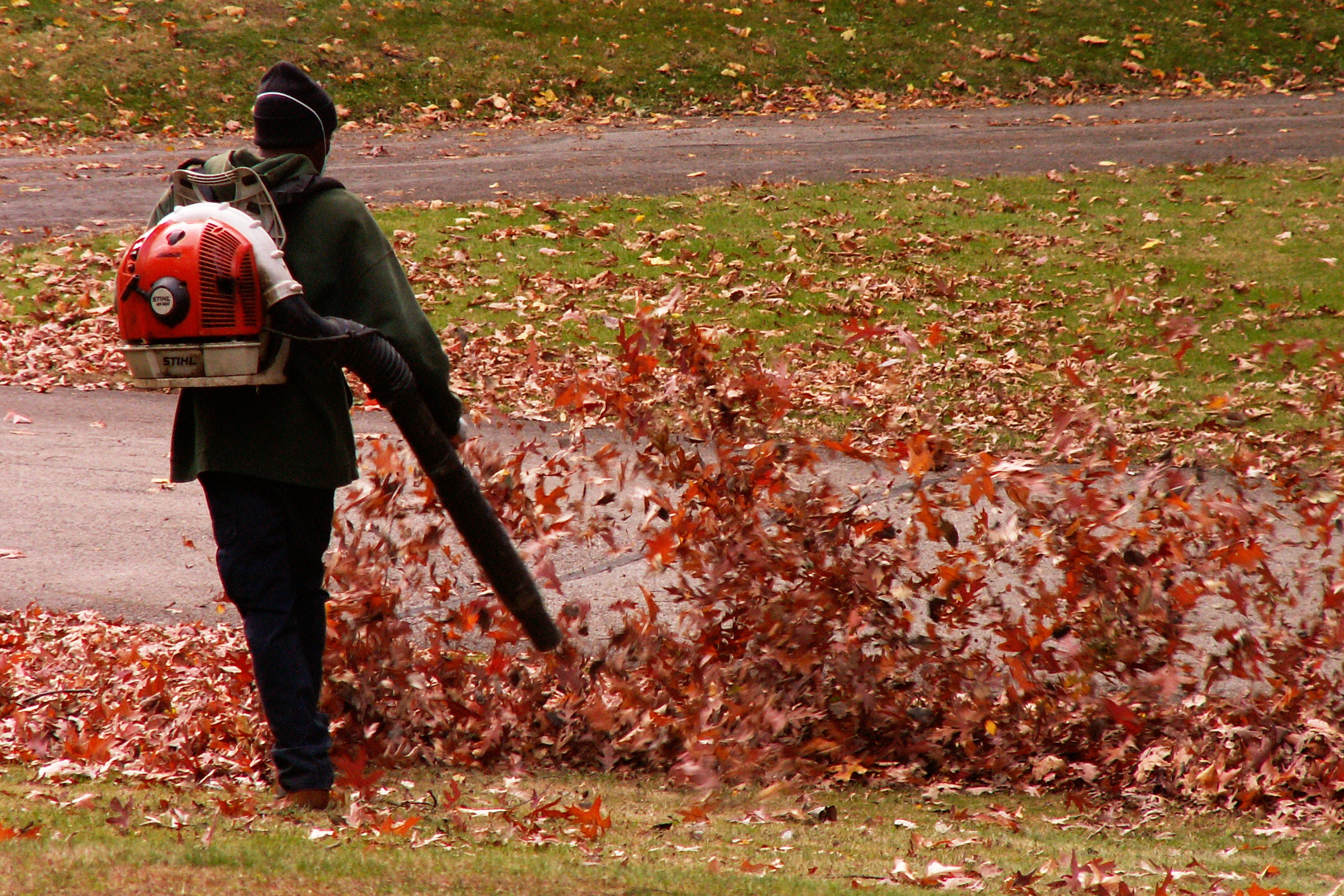 A groundskeeper blows autumn leaves in the Homewood Cemetery, Pittsburgh